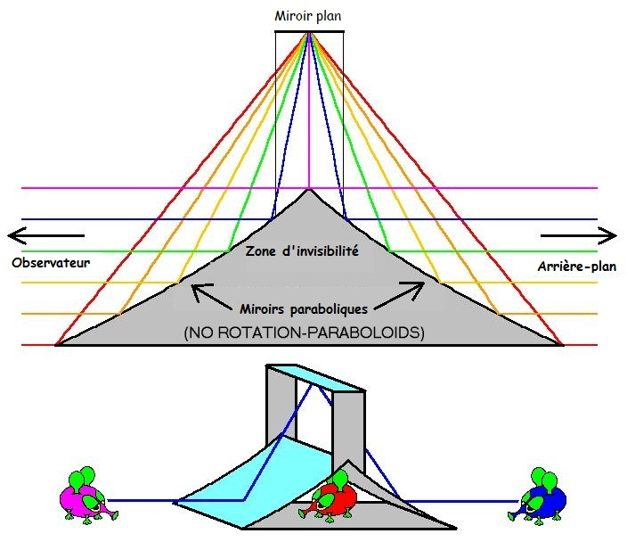 By using two parabolic cylindric mirrors and one plane mirror, the image of the background is directed around an object, making the object itself invisible - at least from two sides.